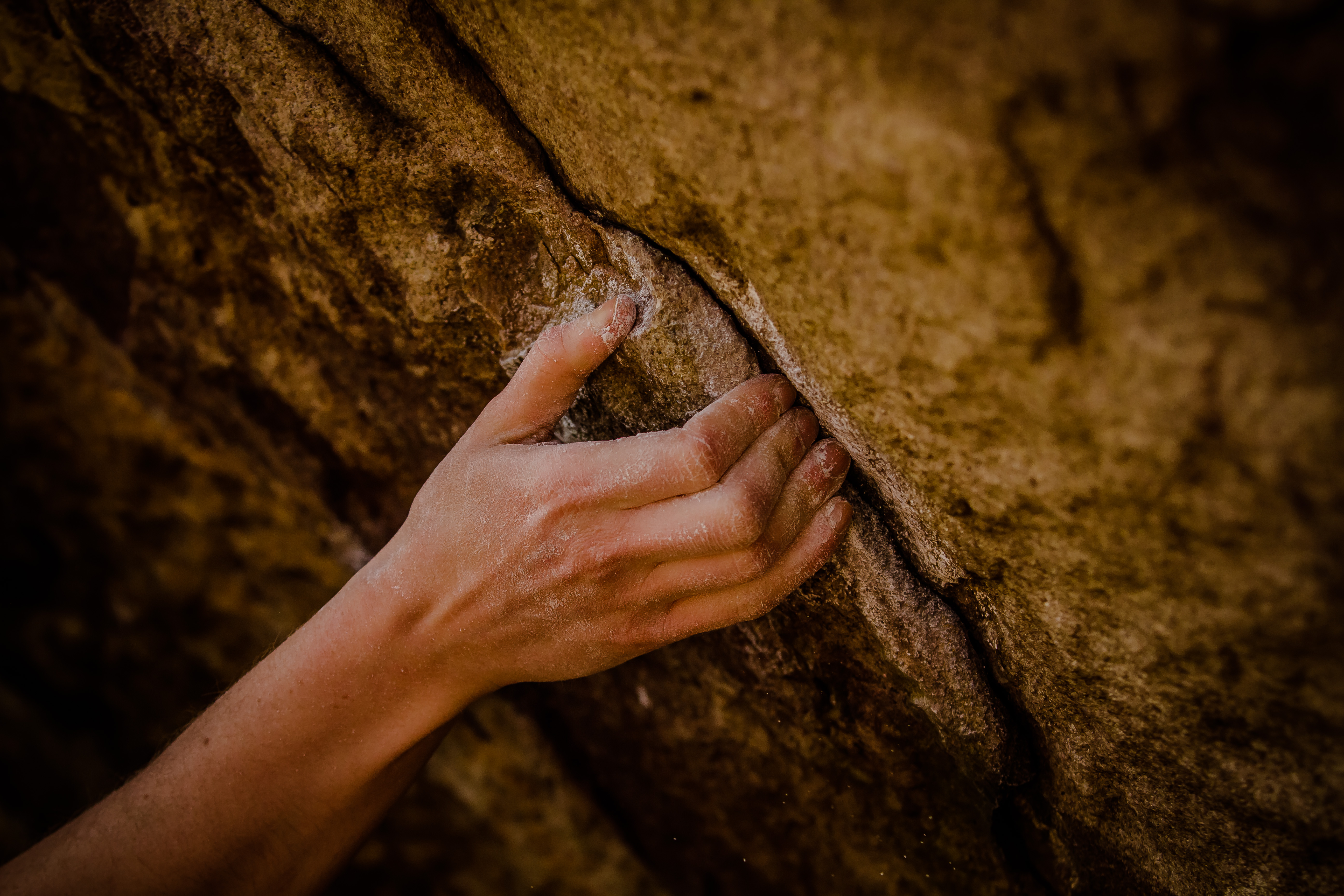 Bouldering in Coopers Rock